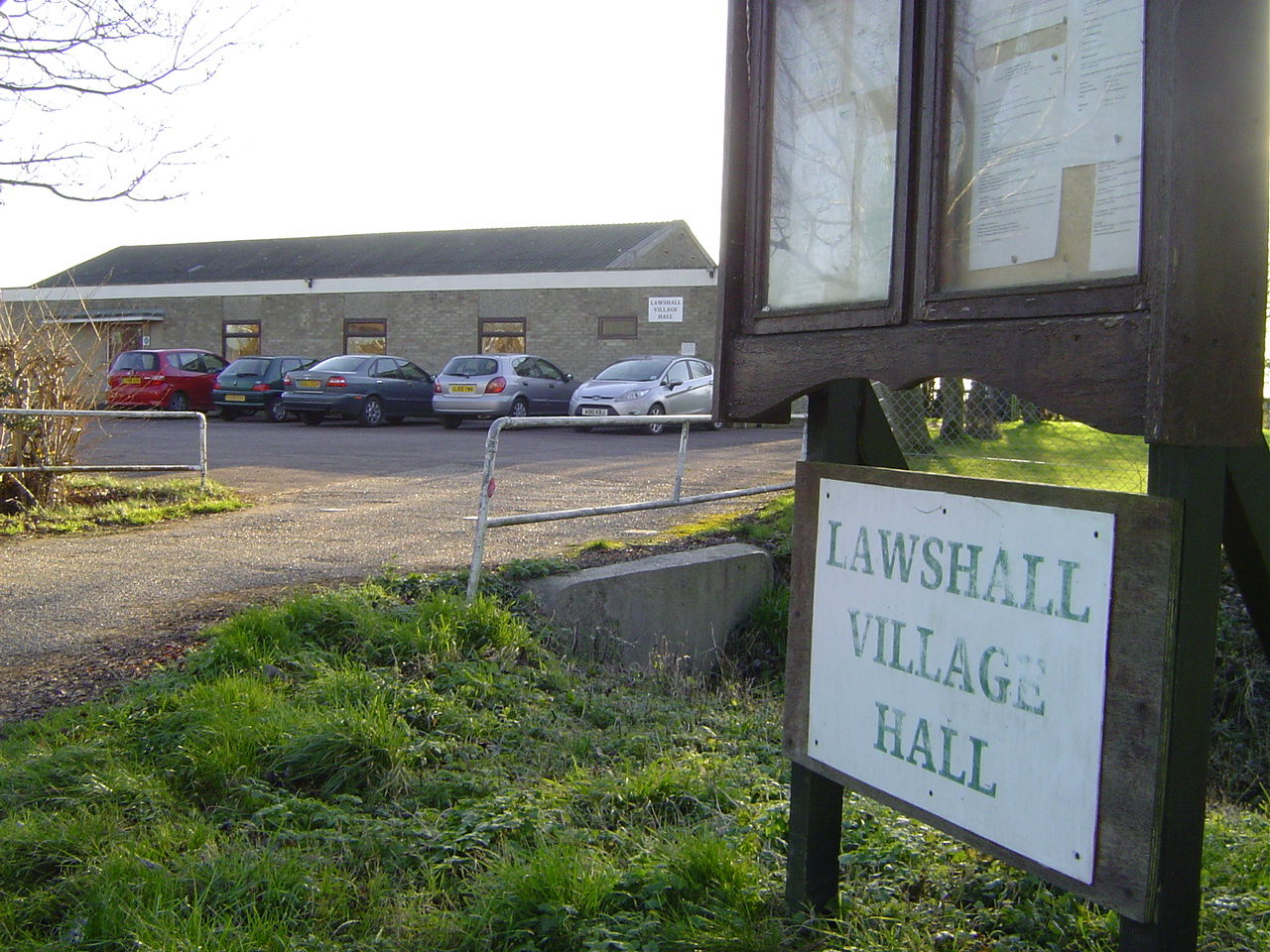 Lawshall Village Hall - including car park and sign-board.